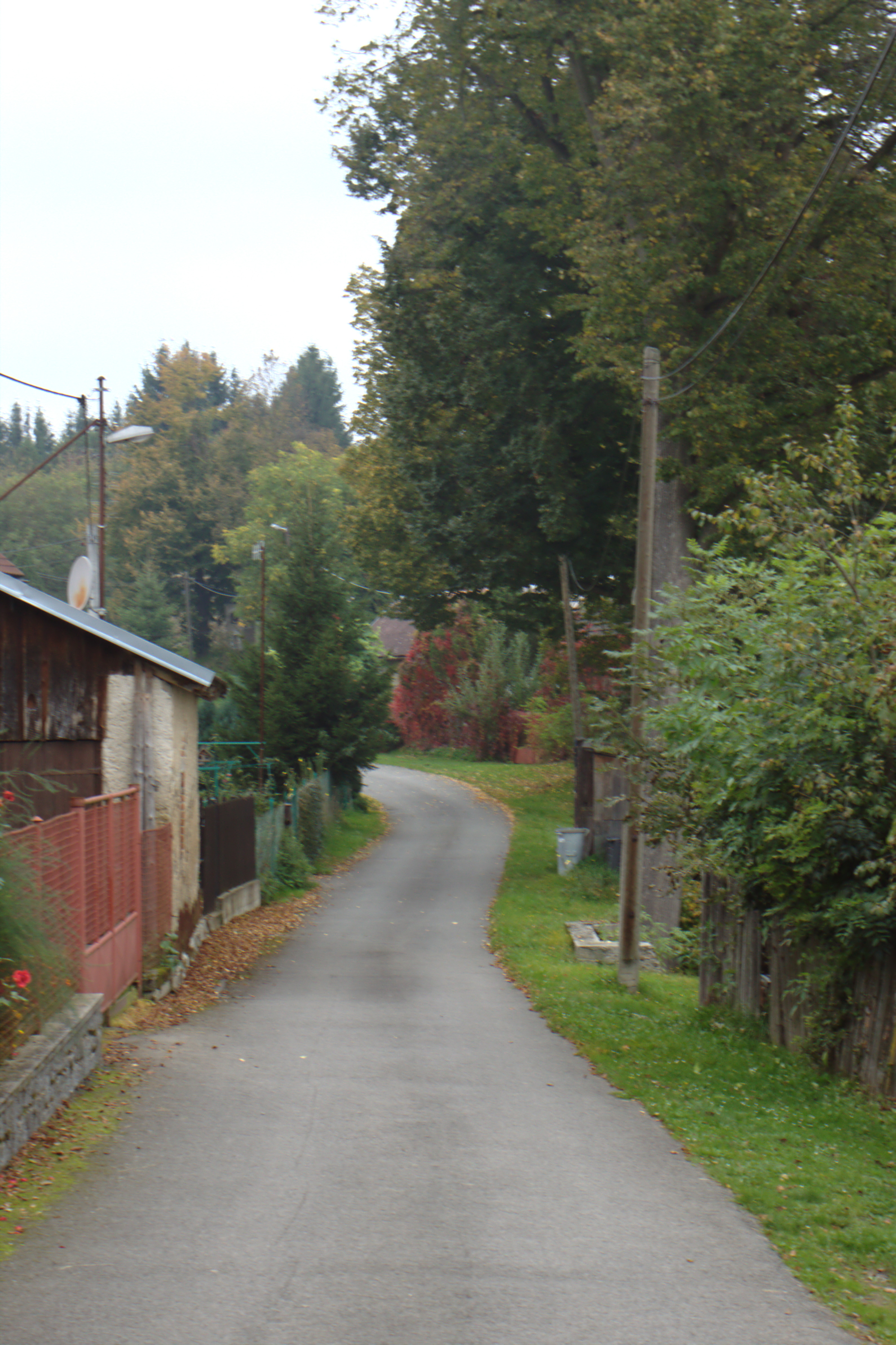 A road in between of various buildings in Jiřetice, Central Bohemian Region, CZ